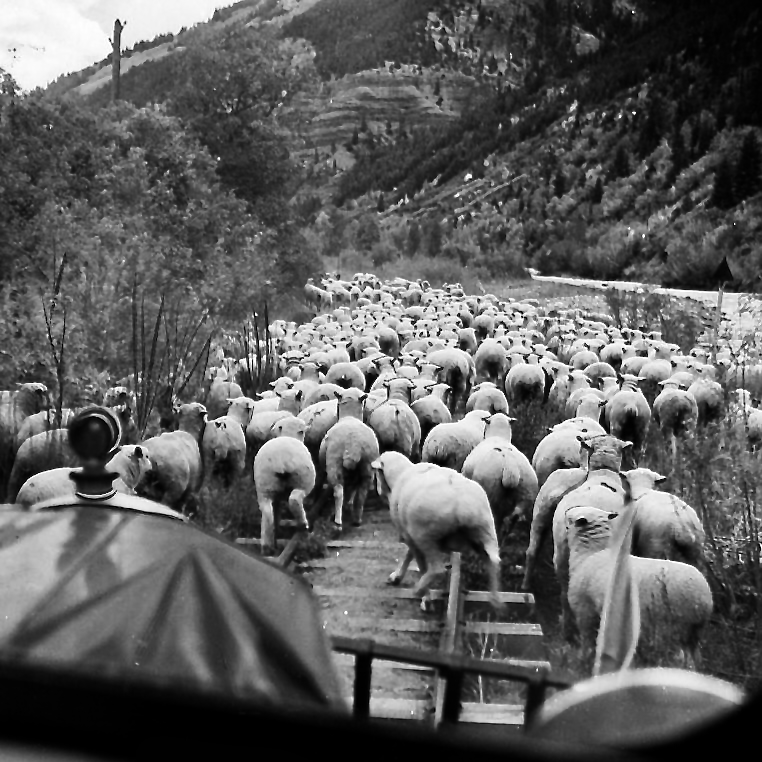 Photo of sheep in the path of the Galloping Goose in 1951. The train would need to stop while the rails were cleared.